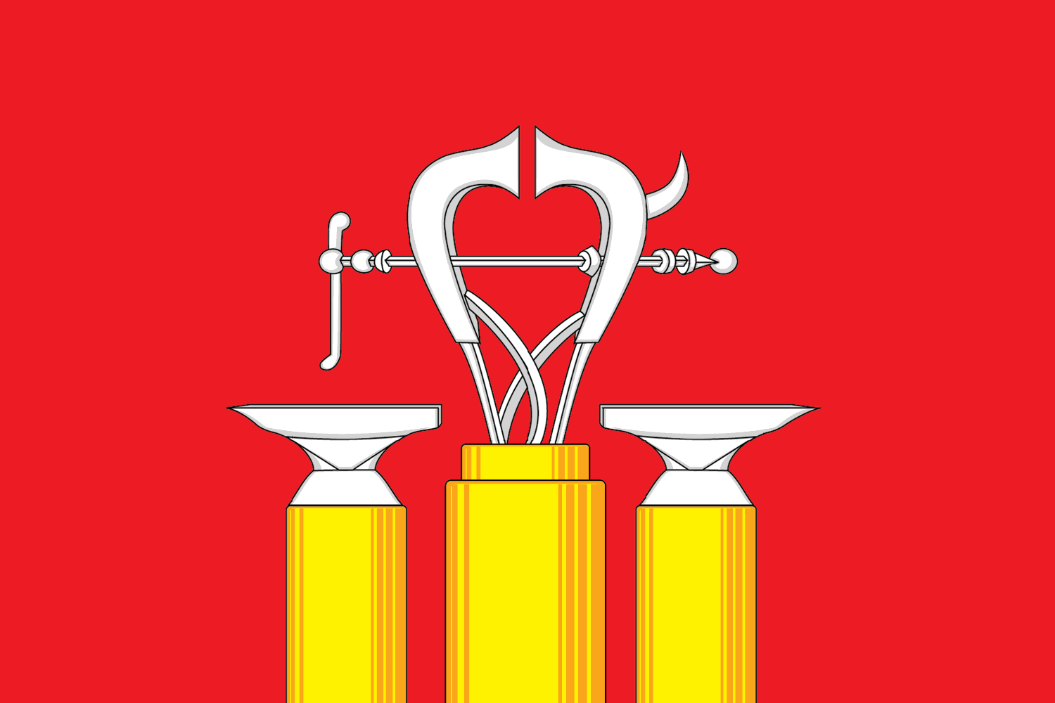 Flag of Aleksandrov, Vladimir Oblast, Russia